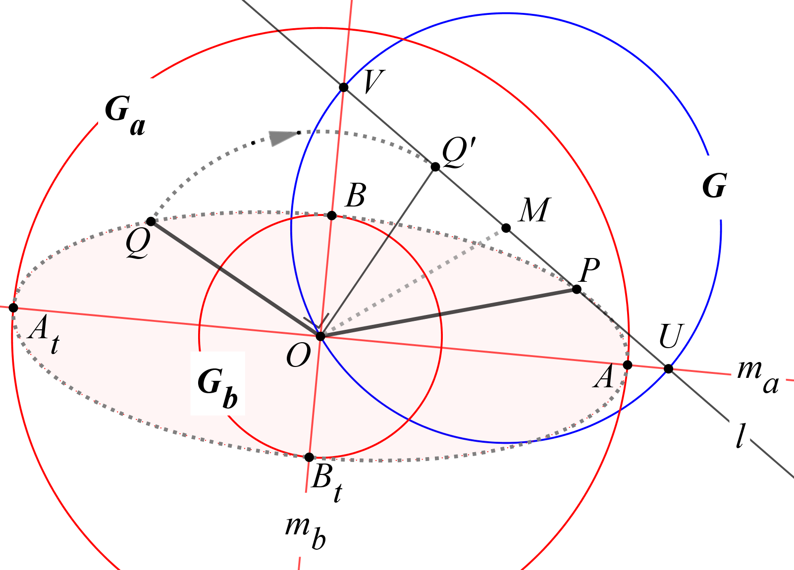 Data, description, proof of Rytz construction